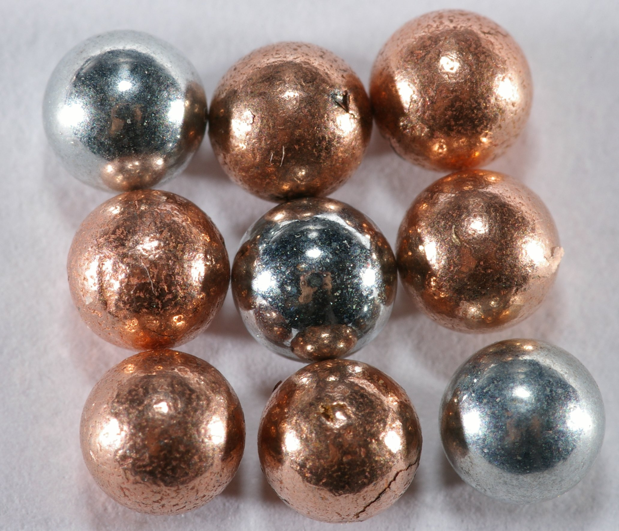 A group of BBs (0.177 inches (4.5 mm) diameter steel balls). The copper ones are copper plated steel, I think the silver ones are nickel plated steel.